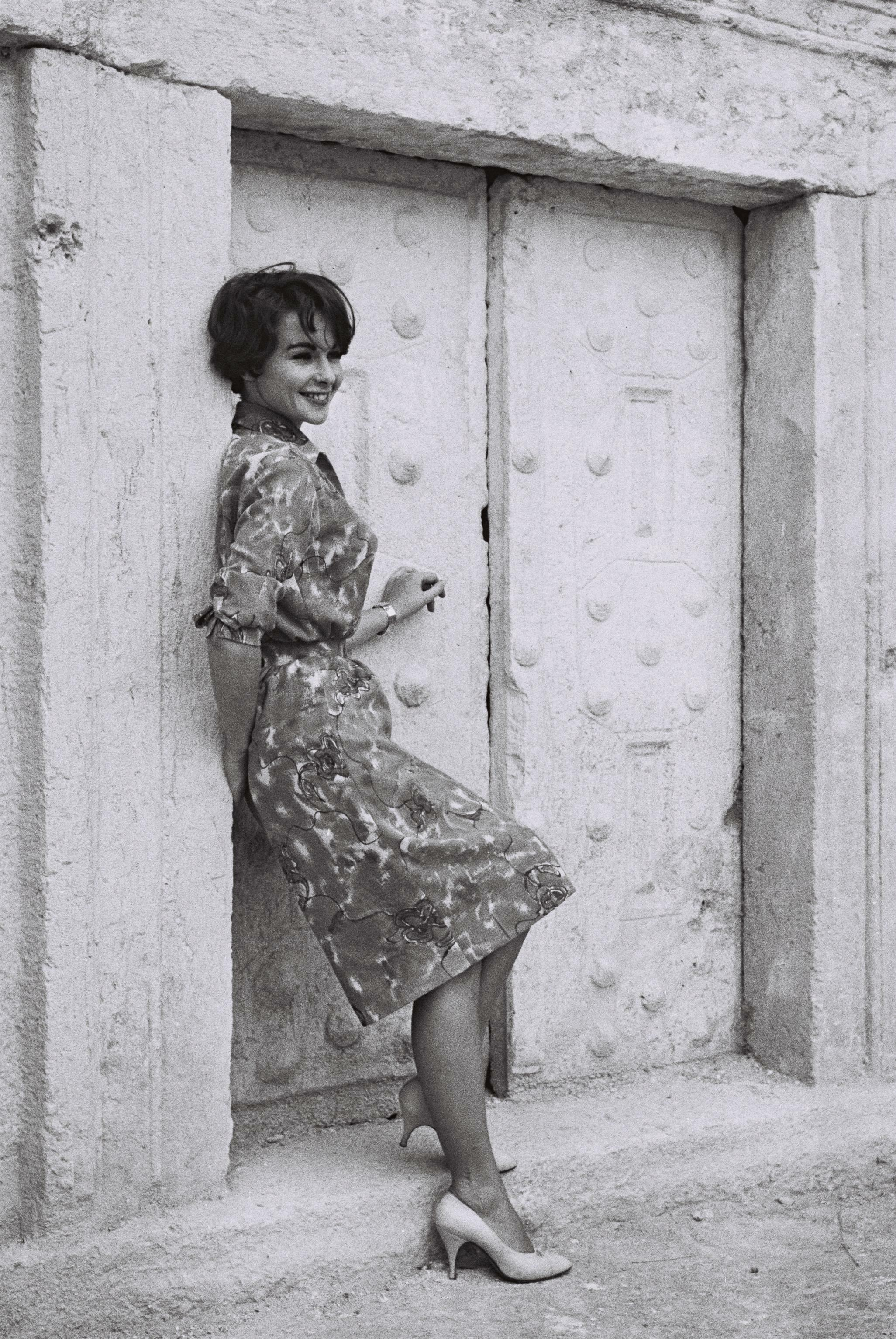 Françoise Arnoul in Bet Shearim, Israel